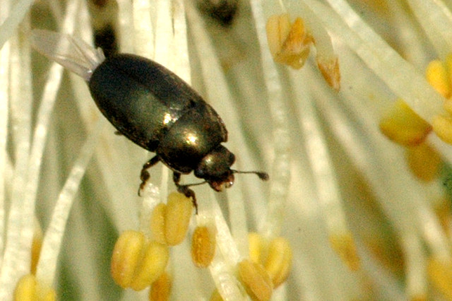 Picture taken in Commanster, Belgian High Ardennes . Species: Hister unicolor